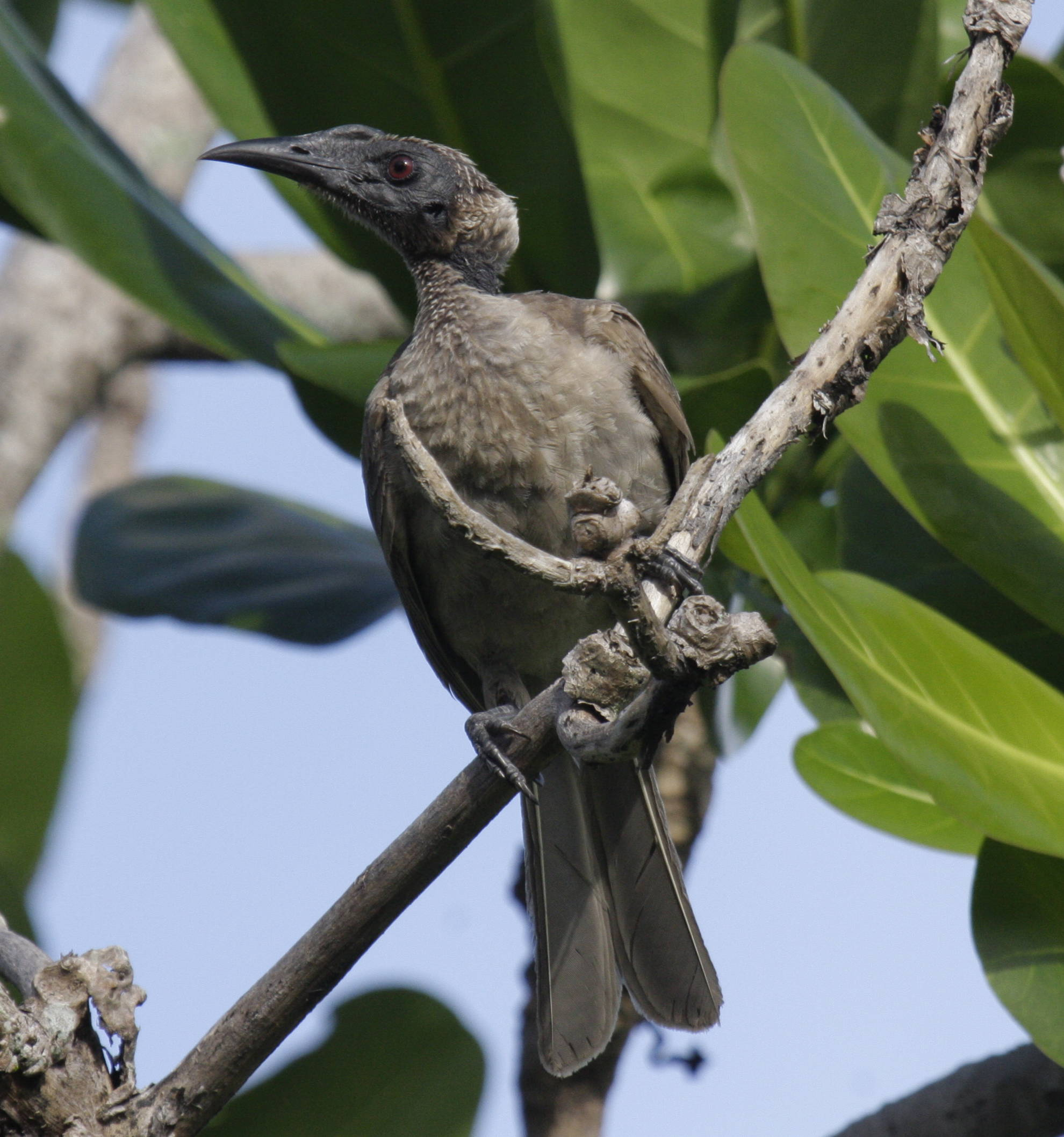 Helmeted Friarbird (Philemon buceroides) Cairns Esplanade, N Queensland, Australia